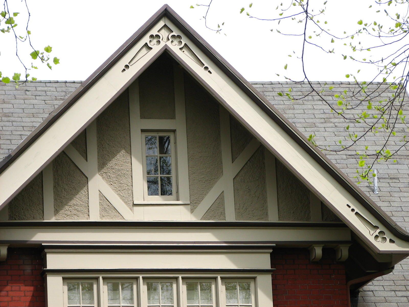 The Blaine Smith House at 5219 Southeast Belmont Street in Portland, Oregon, United States, is listed on the US National Register of Historic Places.